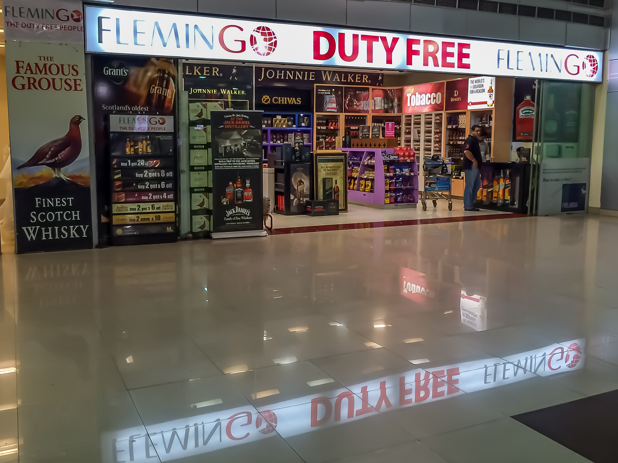 Duty-free store at Sri Guru Ram Dass Jee International Airport, Amritsar, India